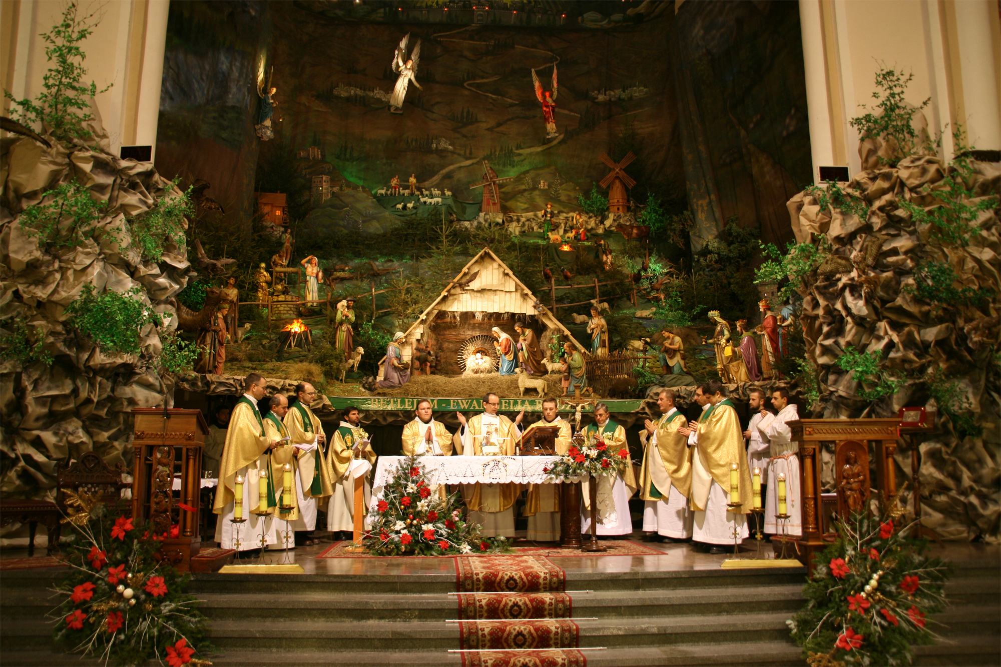 Crib in Katowice Panewniki, Poland (2006, Mass in the front of the manger)